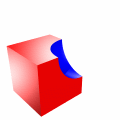 Demo of constructive solid geometry difference.